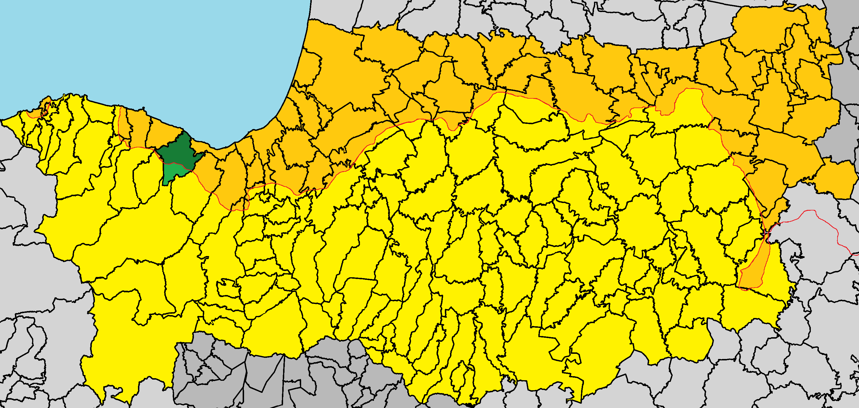 Galini in Nicosia District (de jure).